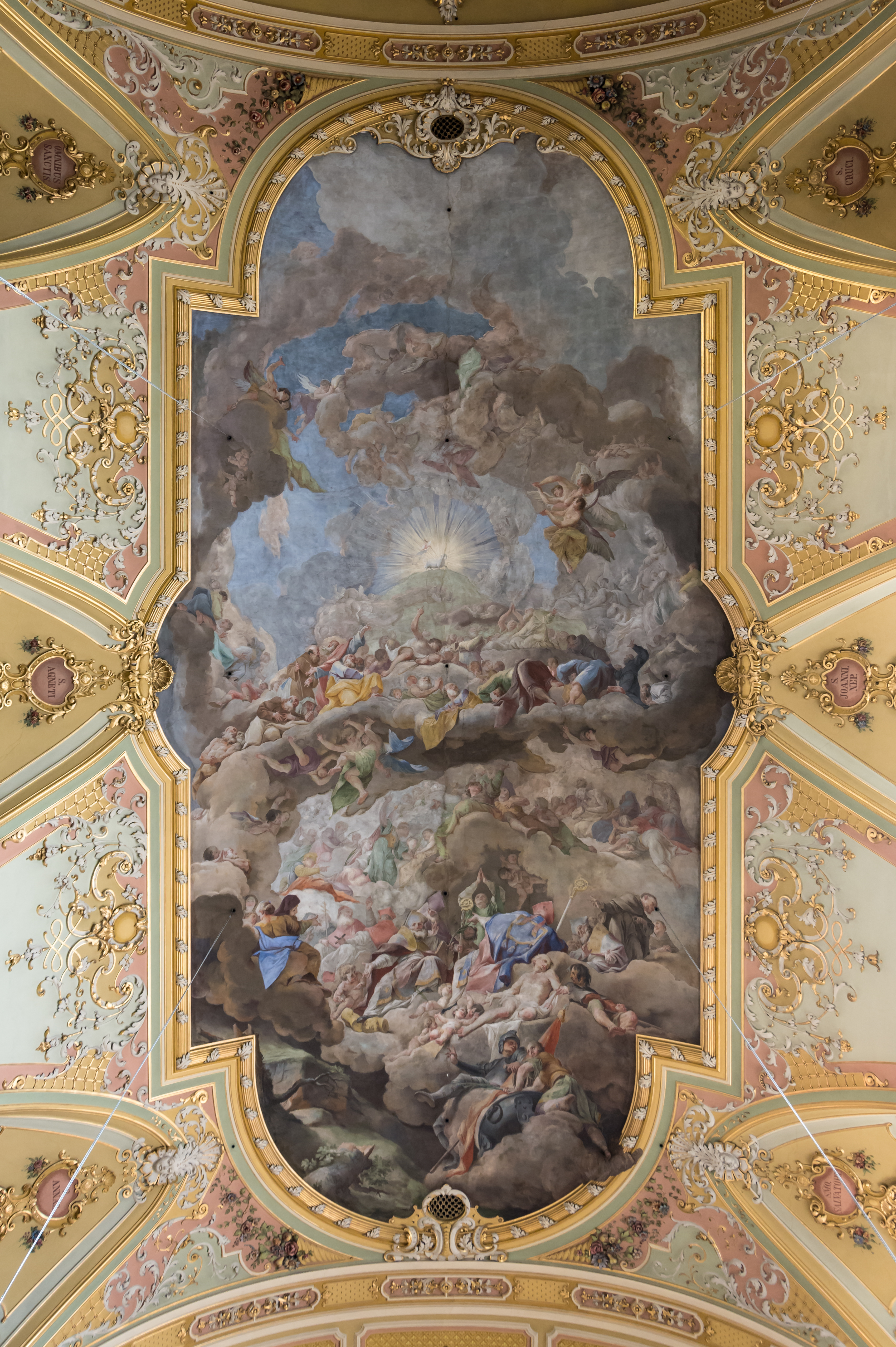 Ceiling fresco in Brixen Cathedral by Paul Troger (1748-50): The Worship of the Lamb